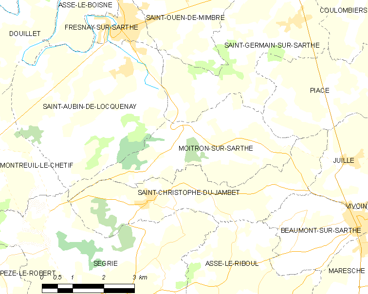 Map of French municipality